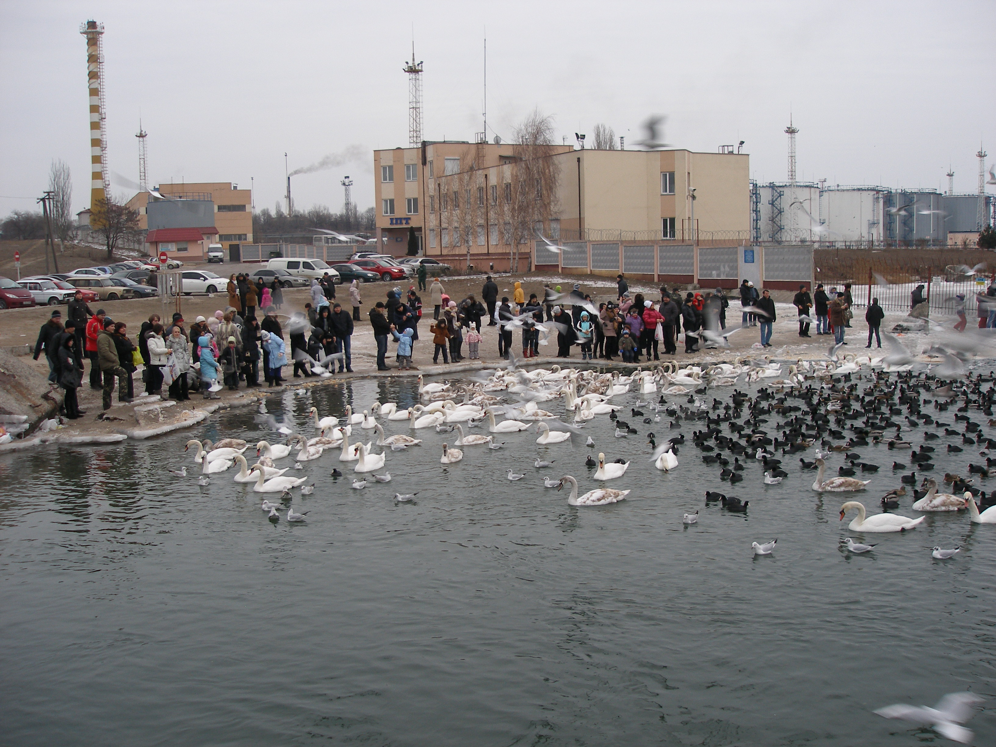 The residents feed the birds at the Dry Firth crossing